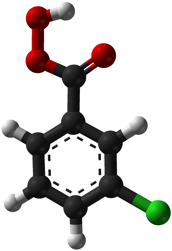 Ball-and-stick model of the meta-chloroperoxybenzoic acid molecule, C7H5ClO3. Structure calculated with Spartan Student 4.1, using the Hartree-Fock 6-21G* setting. Image generated in Accelrys DS Visualizer.